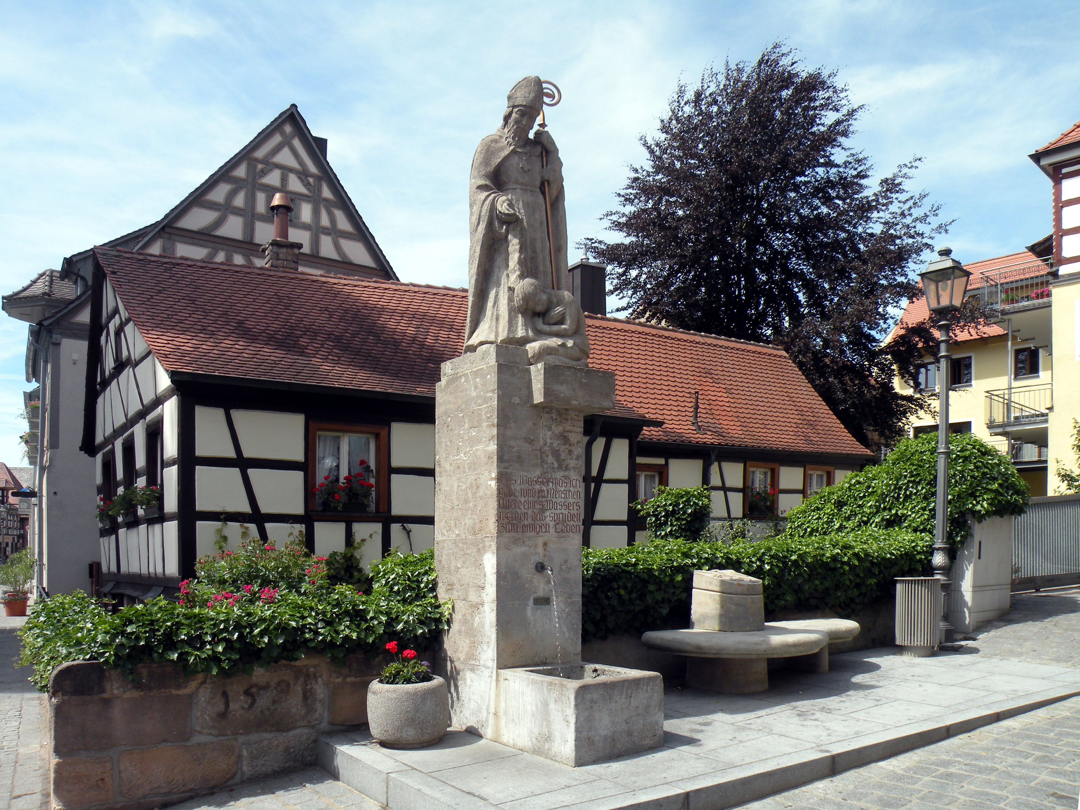 Taufer Kilian in Herzogenaurach. The place of Taufe. 686 AD. Bayern. Mittelfranken. Erlangen-Höchstadt